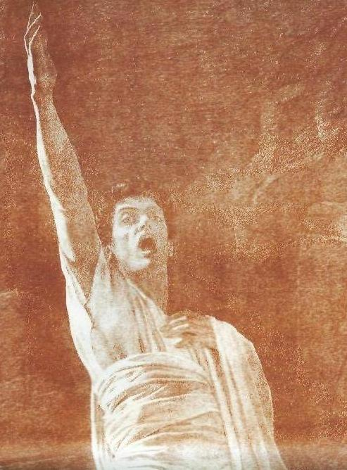 silver prize winning drawing, Royal Academy 1888, Demosthenes at the Sea Shore by A Bernard Sykes Scanned from The Builder, 1888